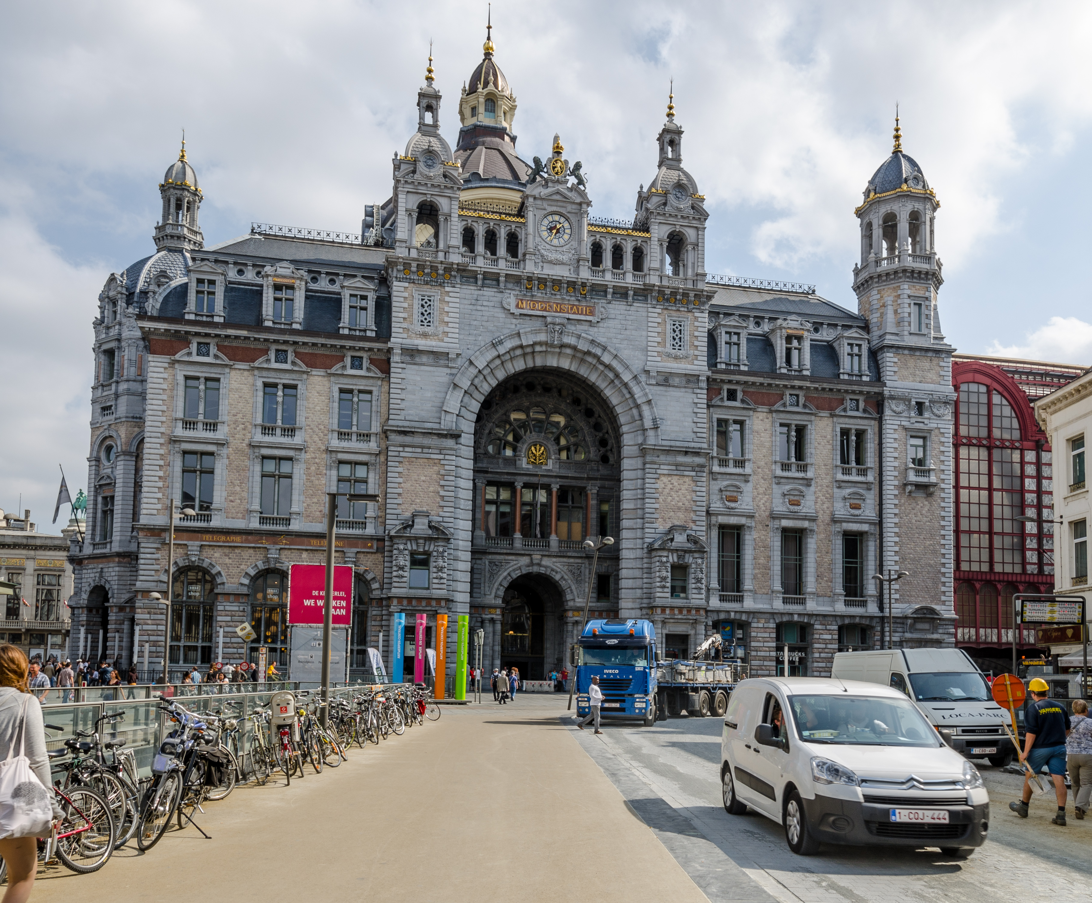 Back of Antwerpen central station